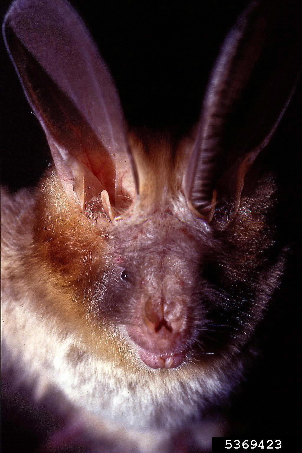 Egyptian Slit-Faced Bat, image taken near Limpopo River on Zimbabwe border, South Africa